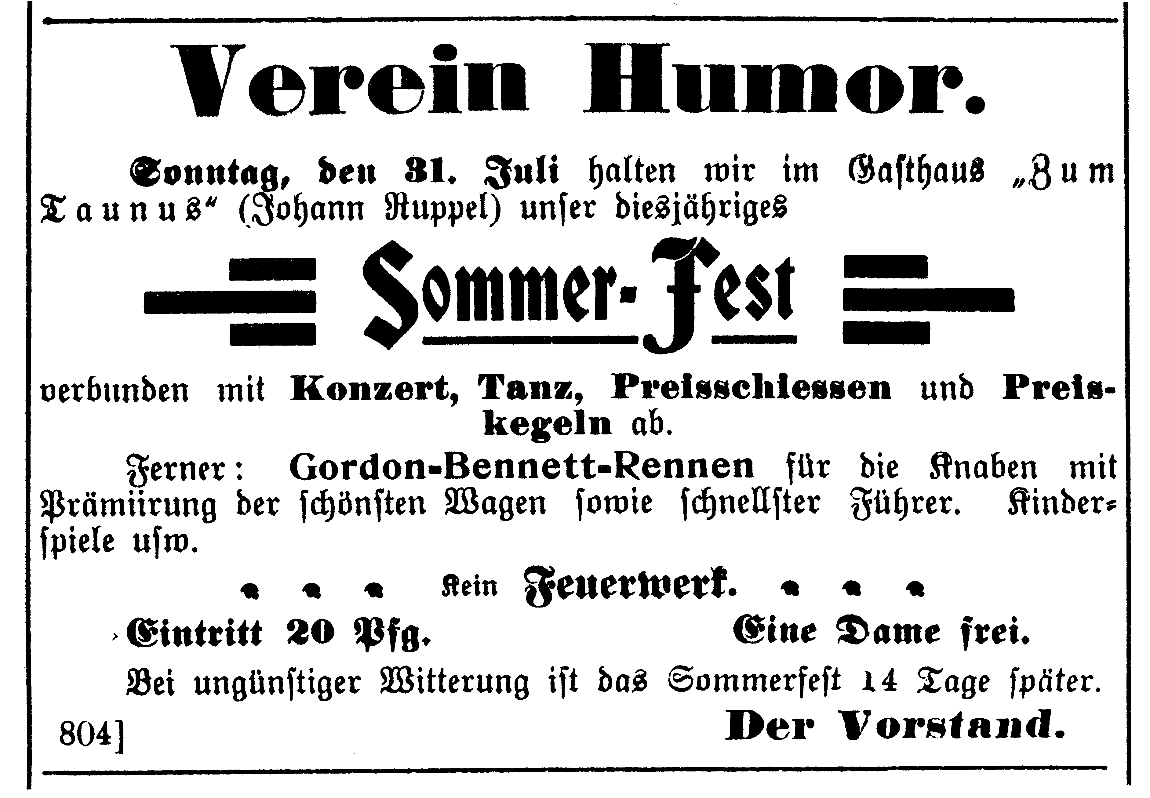 Several summer events clashed in Oberursel (Taunus) on July 31, 1904. The Club "Humor" was ahead of others thanks to the kid race. This is an ad in the local newspaper "Oberurseler Lokalanzeiger" of July 30, 1904.